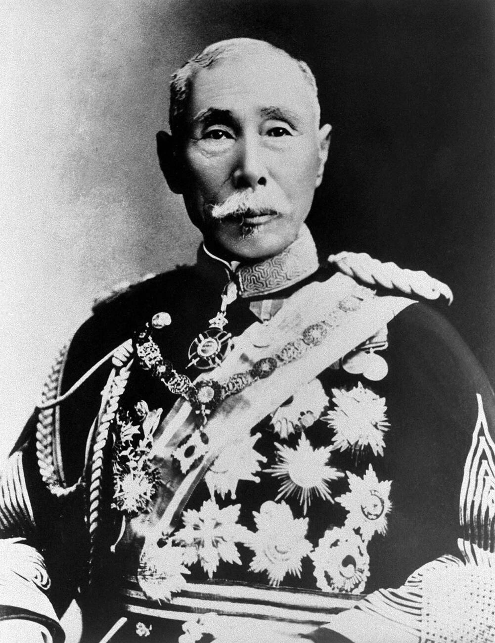 Portrait of Yamagata Aritomo (山県有朋, 1838 – 1922)